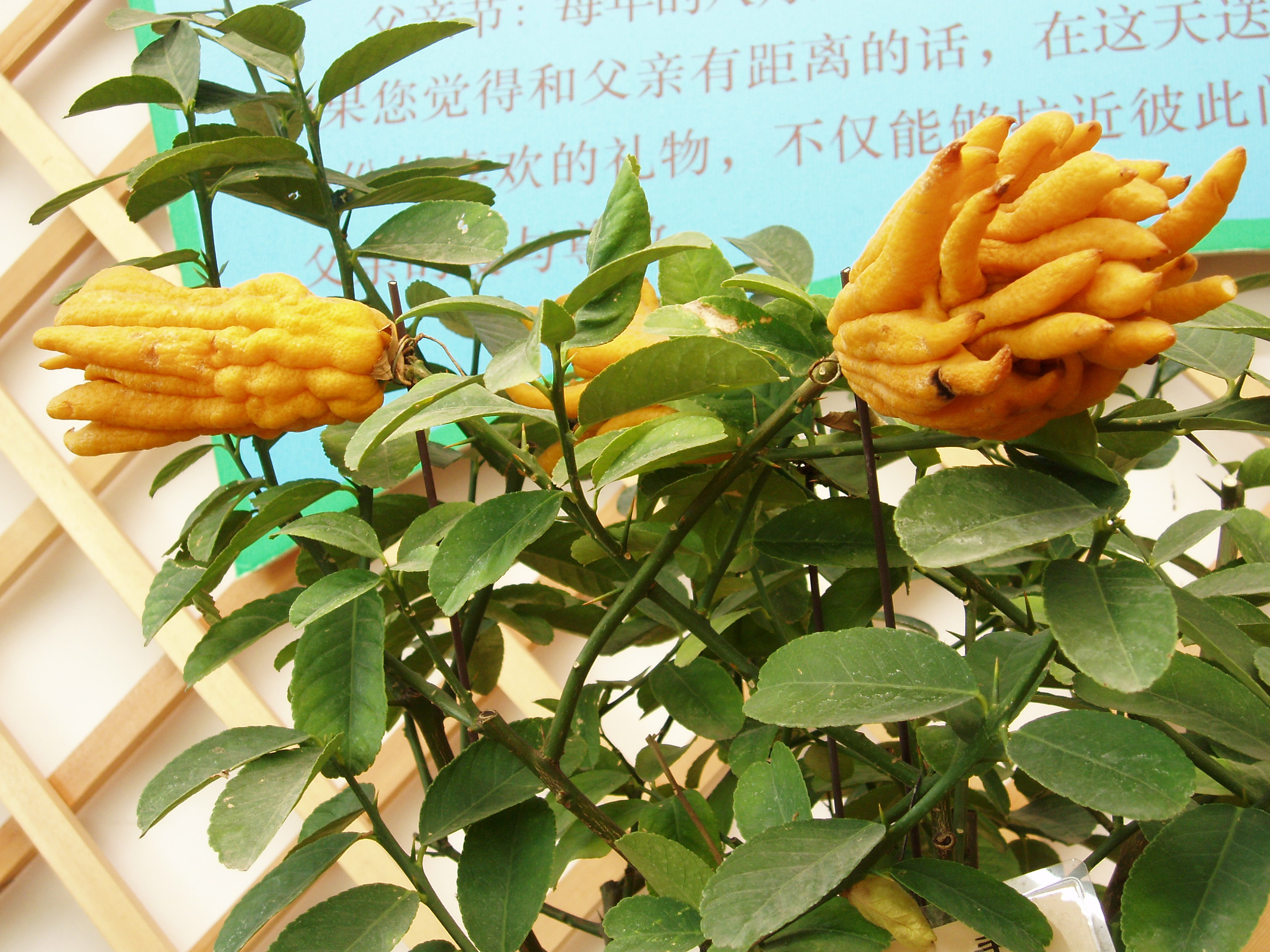 Finger Citron, 'Buddha's hand'